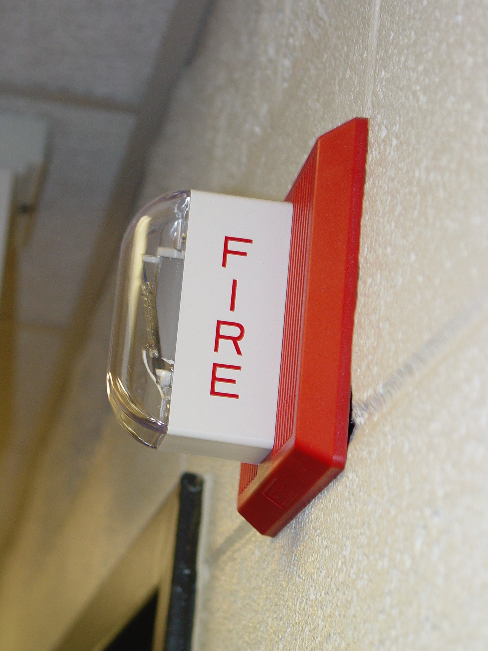 Wheelock MT-24-LSM fire alarm horn.